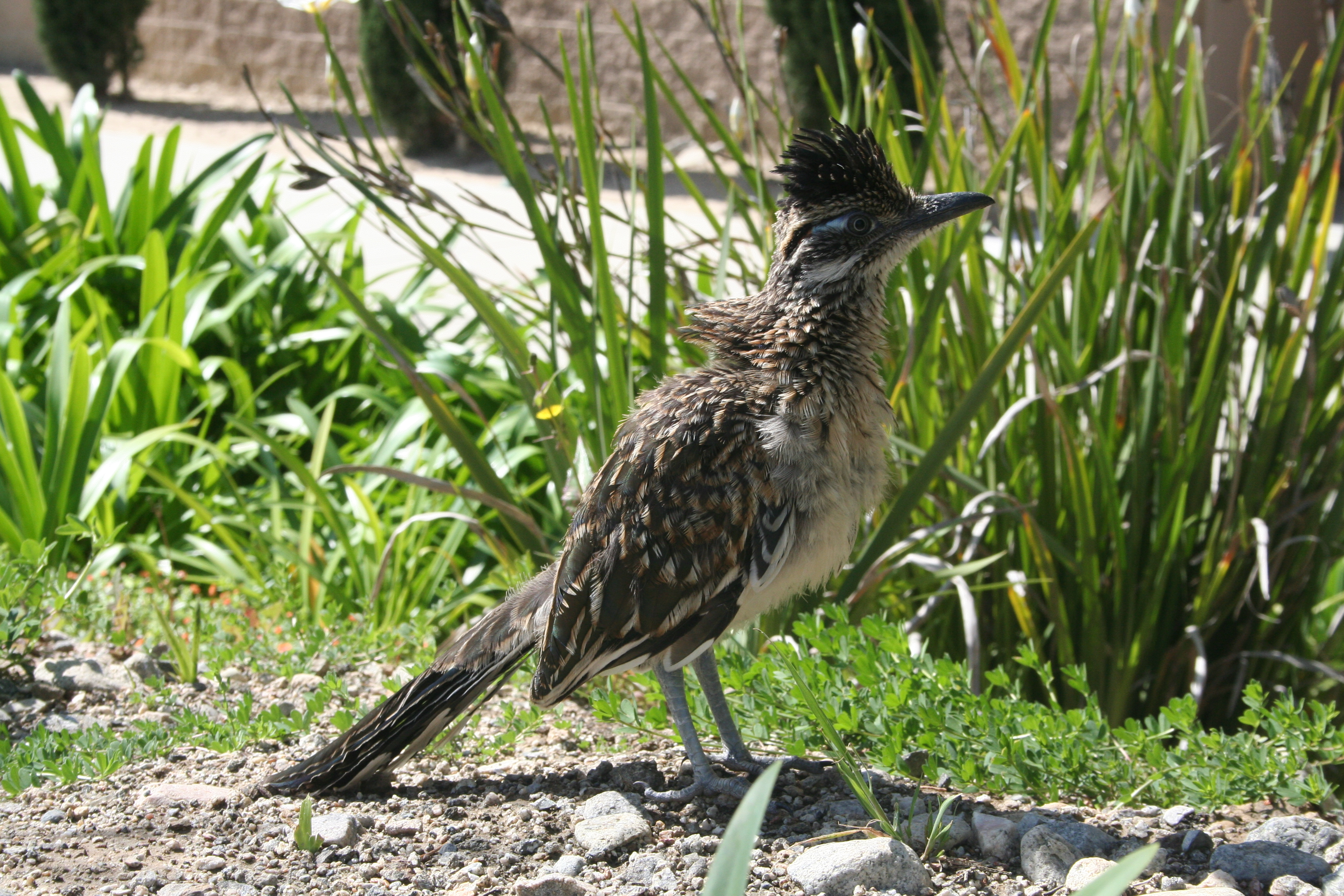 Greater Roadrunner